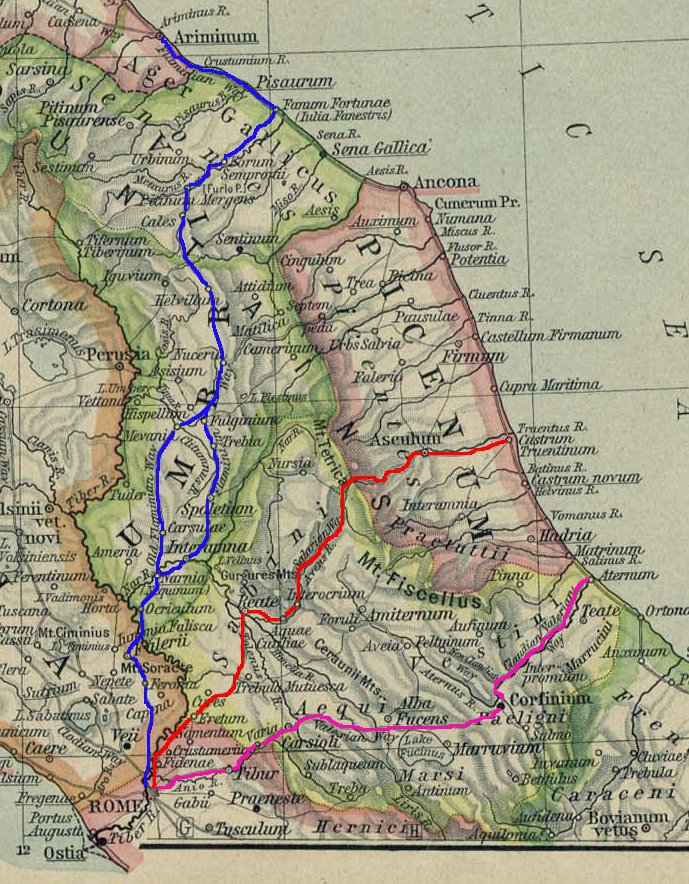 Ancient roman way system linking the city with the Adriatic coast. From the bottom: the Tiburtina way (violet), the Salaria Way (red), the Flaminia way (blue)